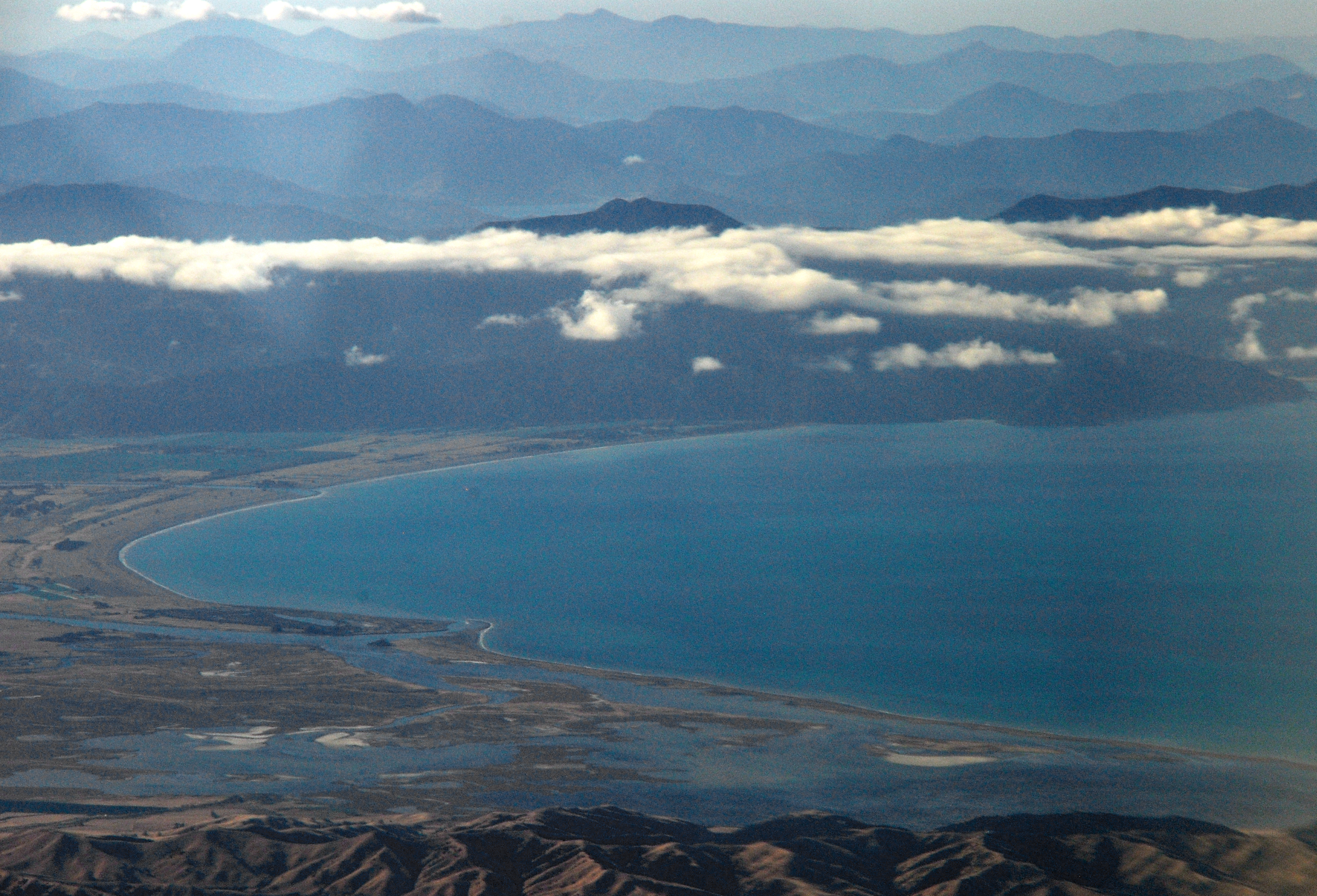 Cloudy Bay, Marlborough. En route Christchurch to Wellington.